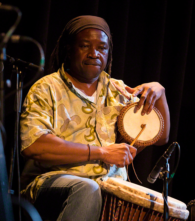 Sidiki Camara performs at The Organ Club at Cosmopolite Scene in Oslo on 14.04.2016.Lineup: Vidar Busk (guitar), Brynjulf Blix (organ), Erland Helbø (guitar), Pål Thowsen (drums), Sidiki Camara (percussion), Audun Erlien (bass), Charles Mena (drums)